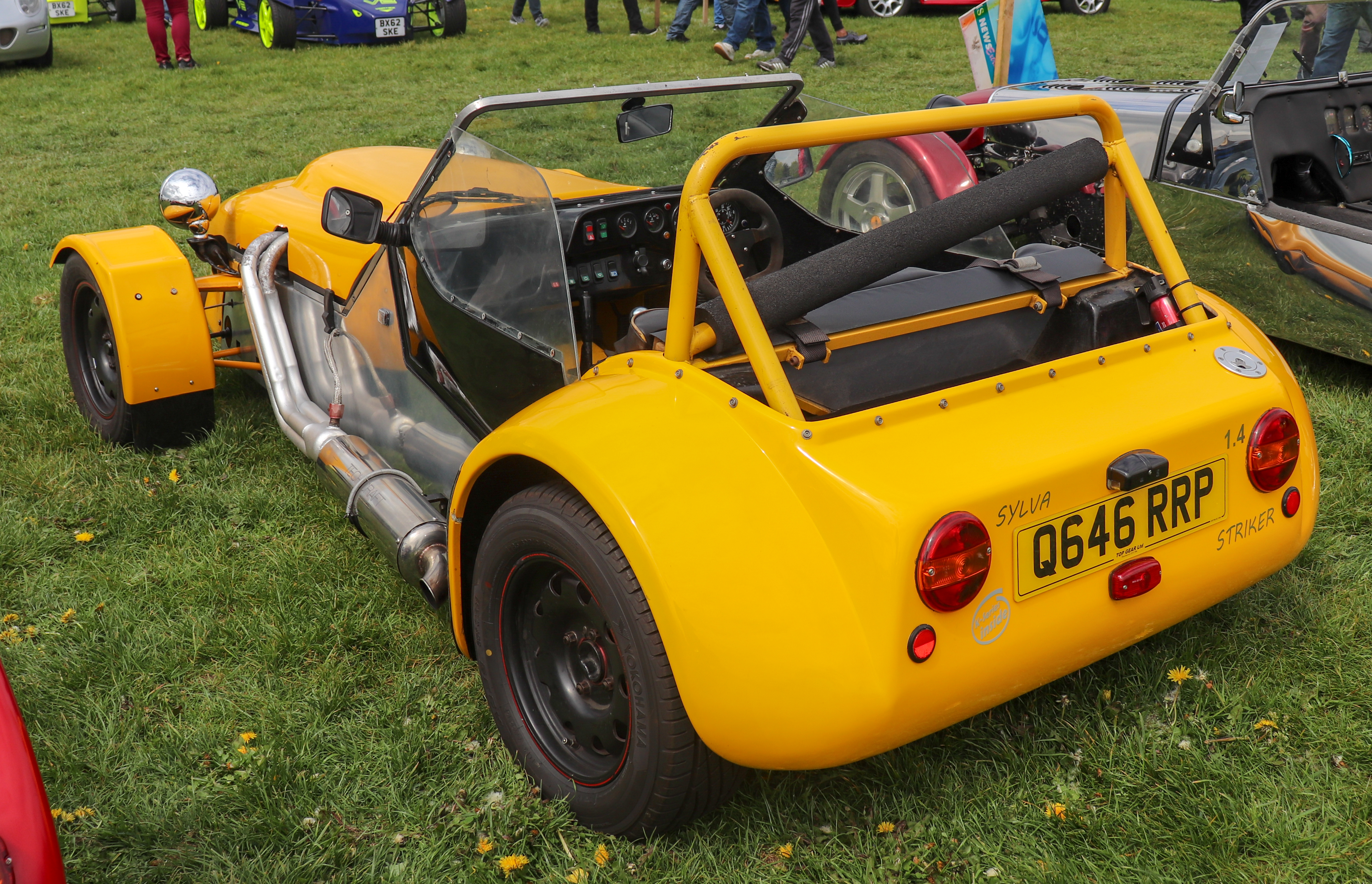 2000 Sylva Striker 1.4 Rear Taken at the Stoneleigh National Kit Car Motor Show 2019